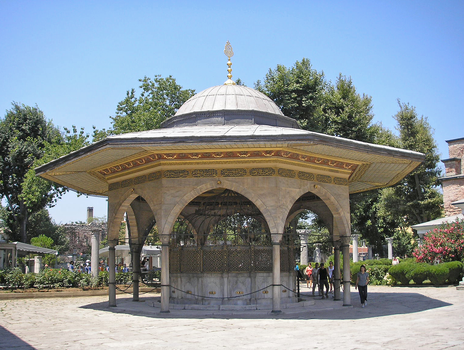 The fountain outside the Hagia Sophia in Istanbul.